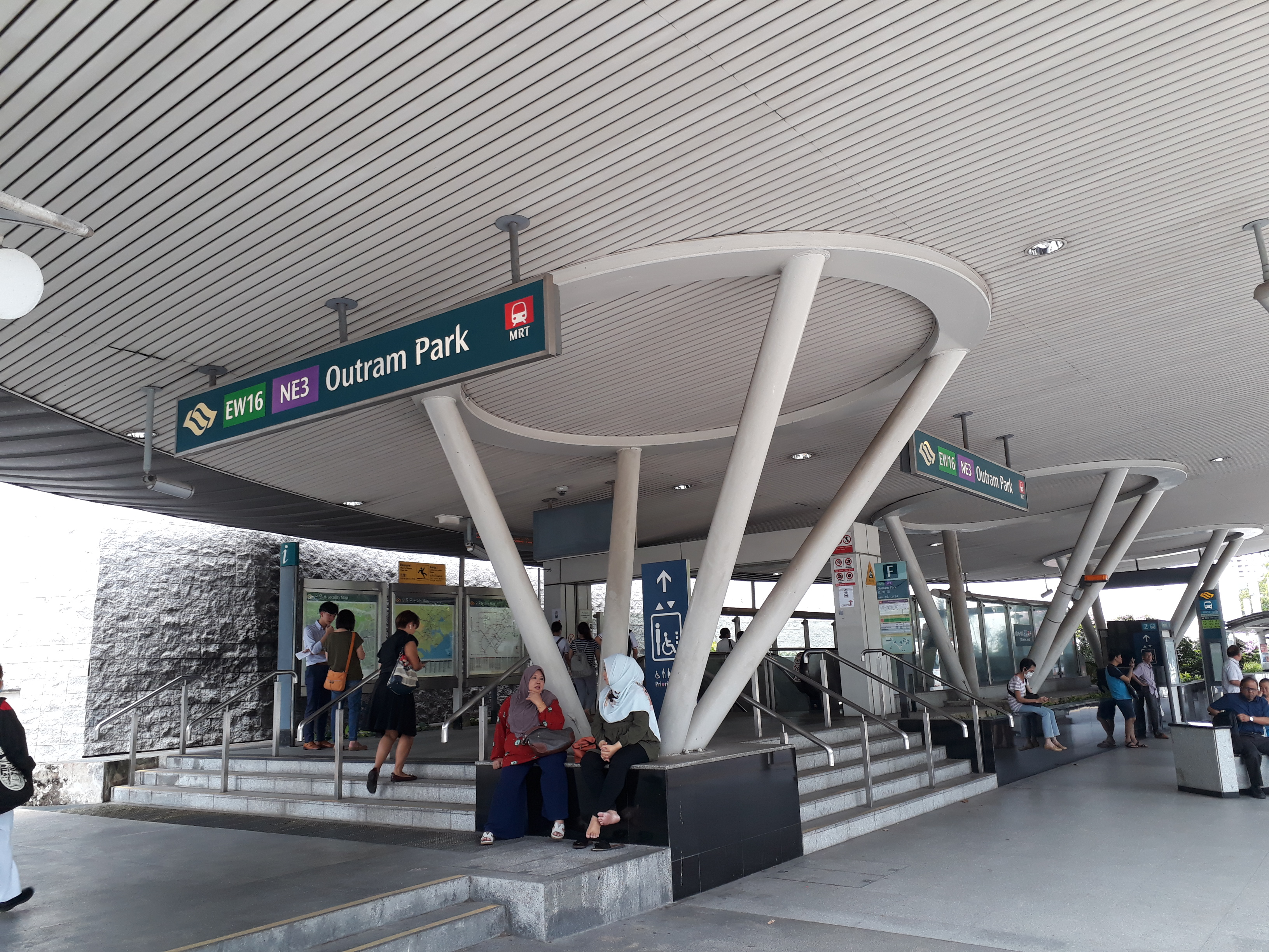 Exit F of Outram Park